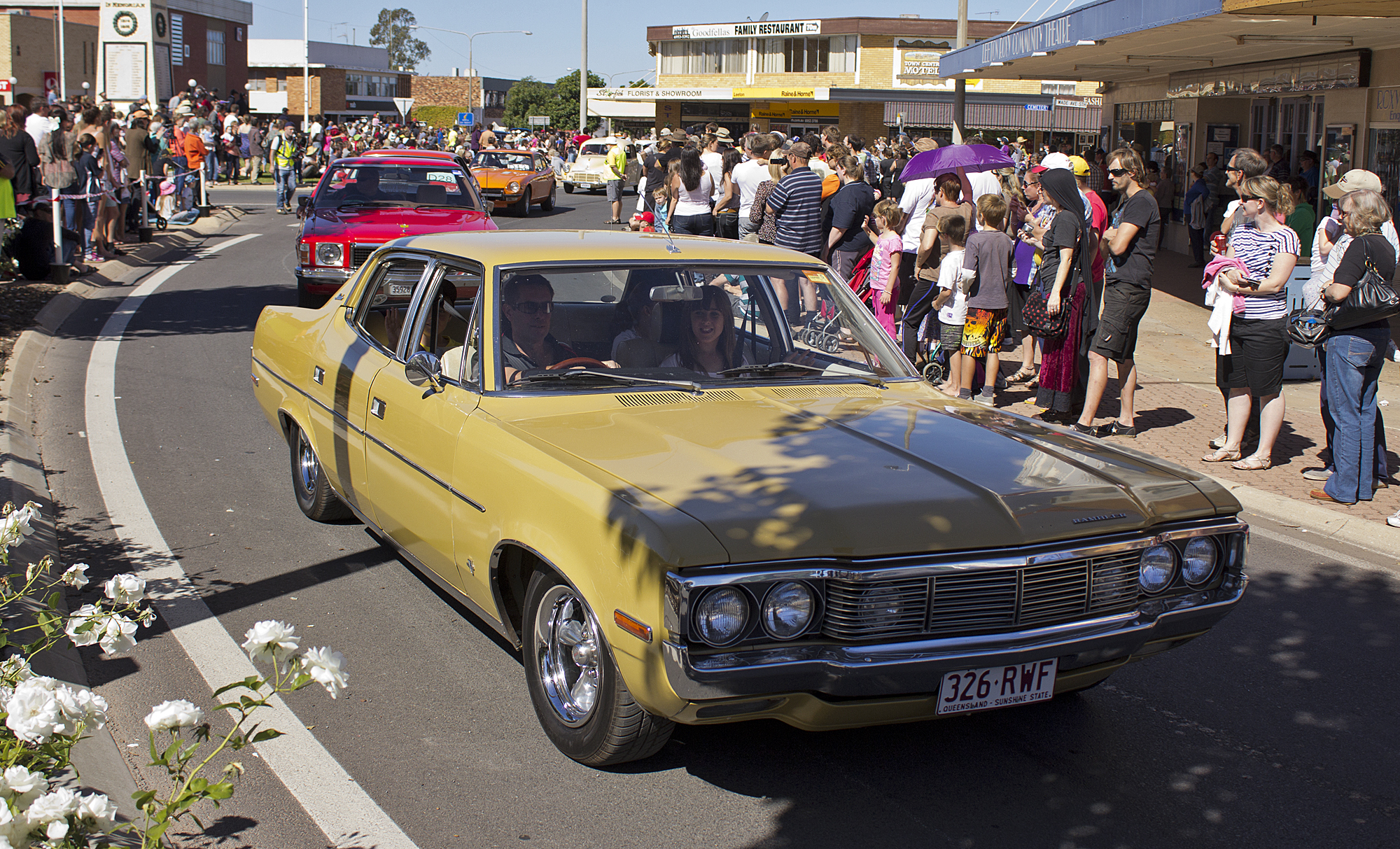 Rambler Matador in the SunRice Festival parade in Pine Ave, Leeton, New South Wales.